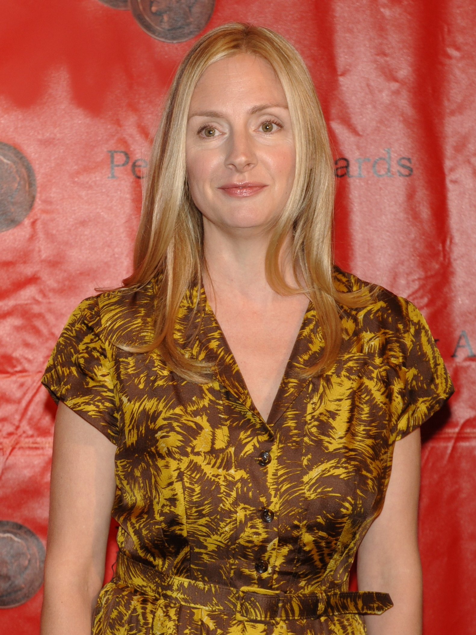 Hope Davis at the 2010 Peabody Award